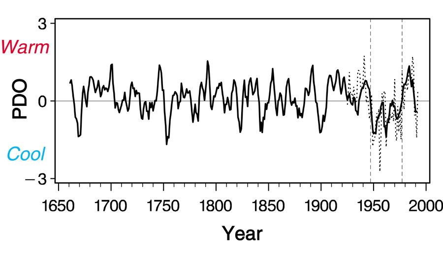 Reconstructed PDO since 1660. Correlation between instrumental (dashed) and reconstructed PDO is 0.64 from 1925 to 1991. During warm periods, the eastern North Pacific is warmer than usual, and the central North Pacific is cooler (vice versa during cool periods). Warm and cool PDO phases are qualitatively similar to warm and cool ENSO events, but different because of slower temporal dynamics and stronger midlatitudinal responses.